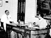 Faisal II of Iraq with Nuri al-Said